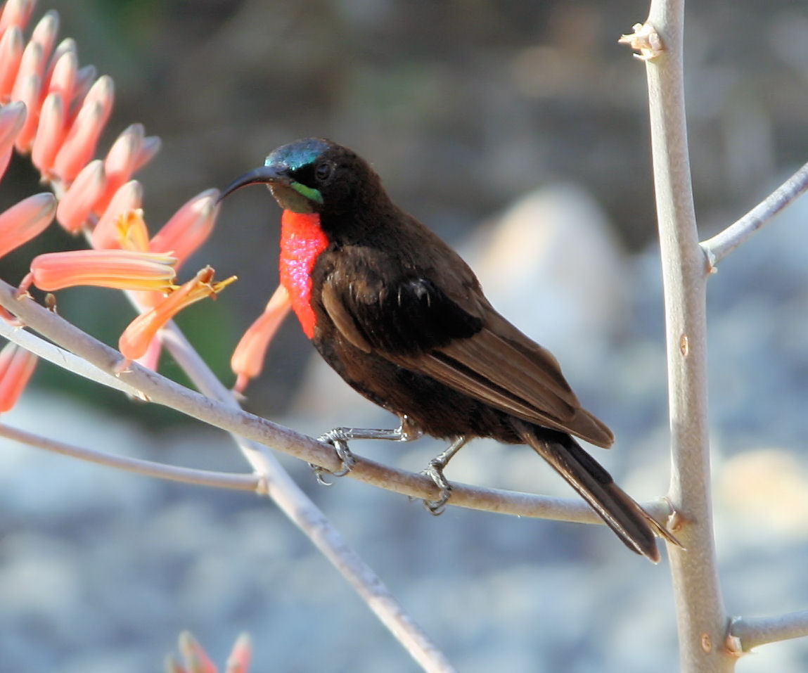 Scarlet-chested Sunbird (Nectarinia senegalensis), picture taken at Tarangire National Park, Tanzania